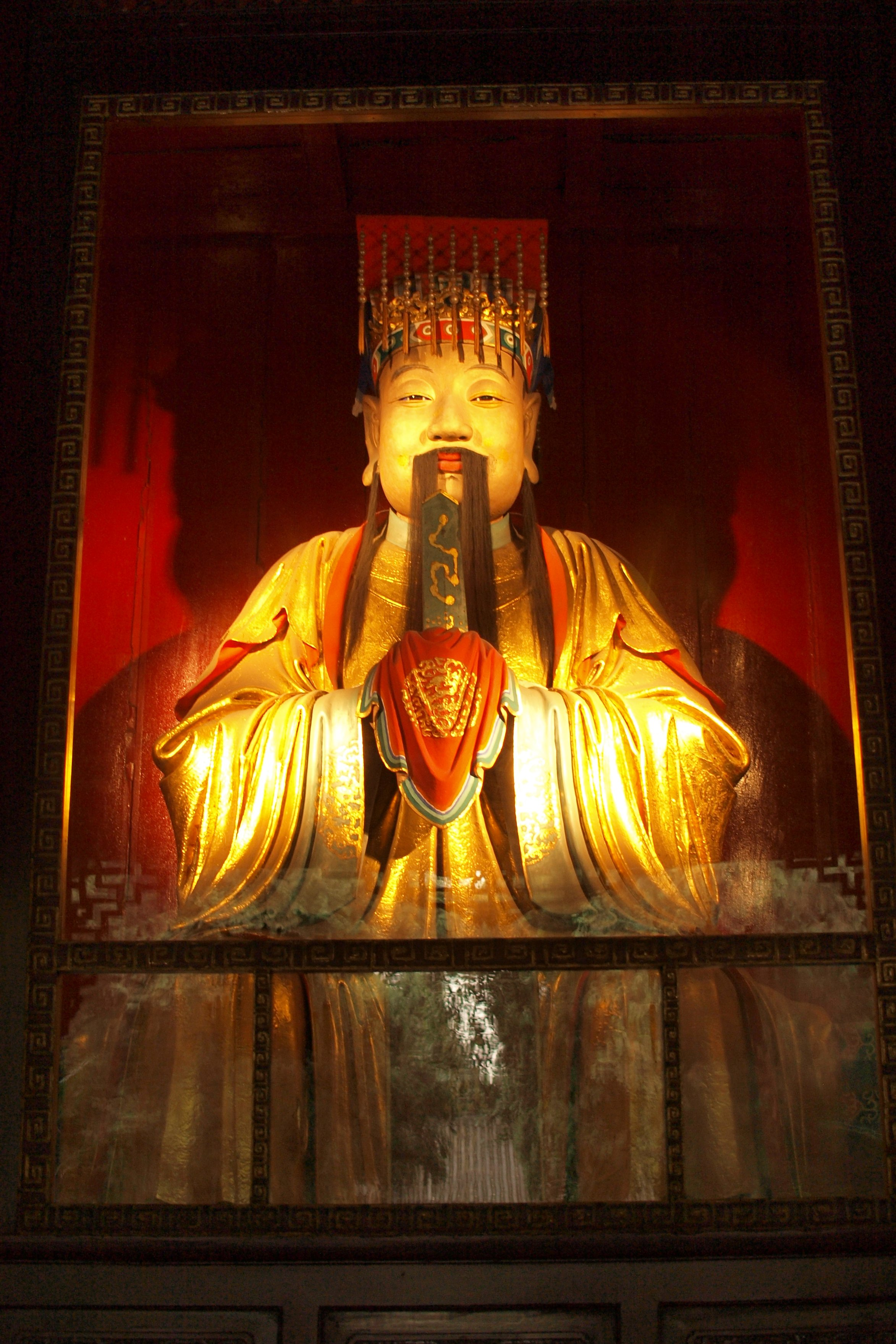 This is the Liu Bei statue displayed at Wuhou Ci, Chengdu, Sichuan.